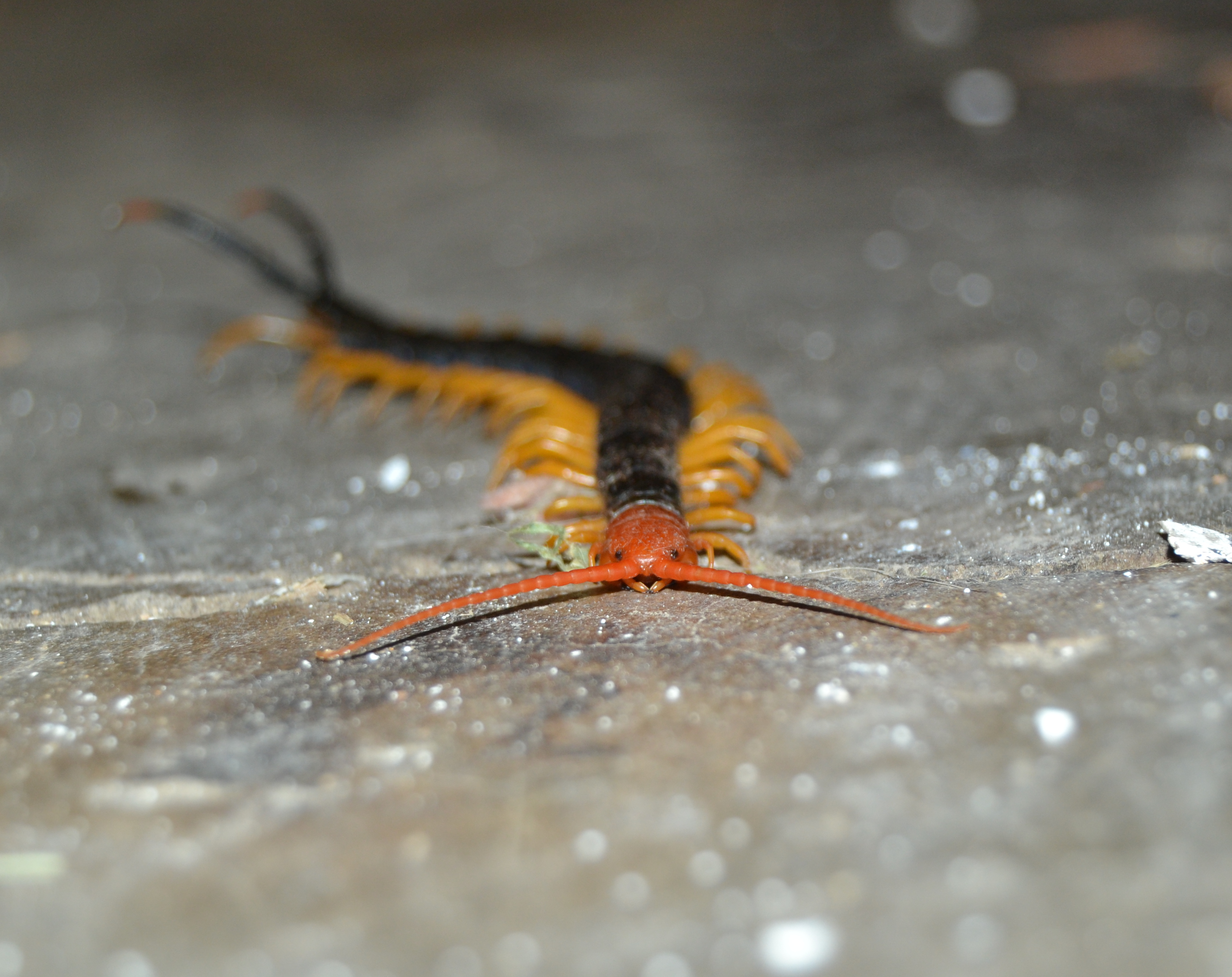 A specimen of Scolopendra heros with black body and red head.